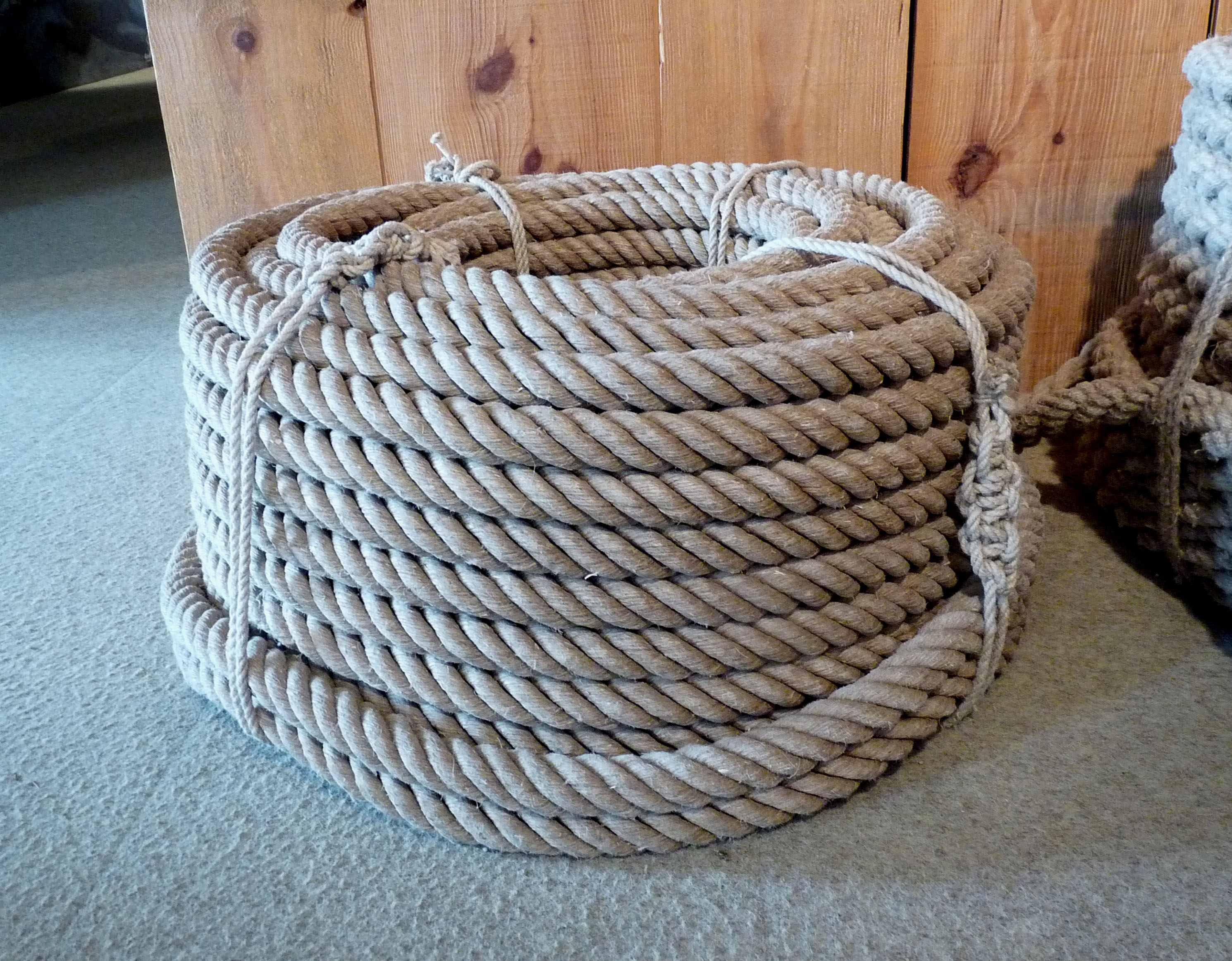 Hemp rope (Corderie Royale of Rochefort, Charente-Maritime)